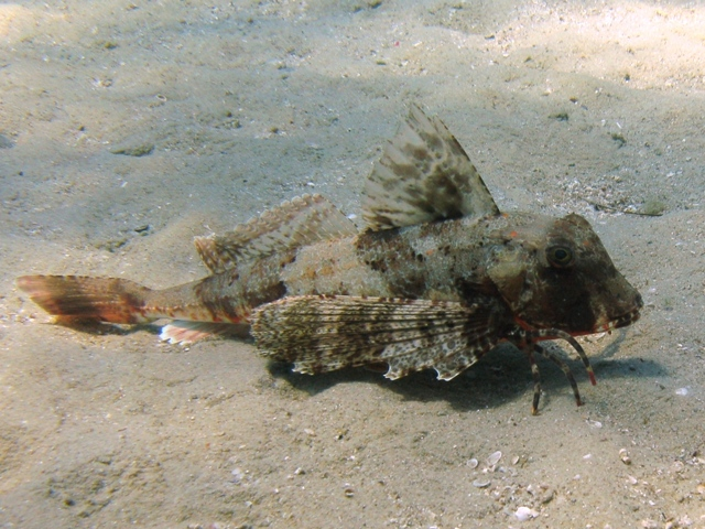 Chelidonichthys lastoviza photographed in Croatian waters. Photo by Roberto Pillon.